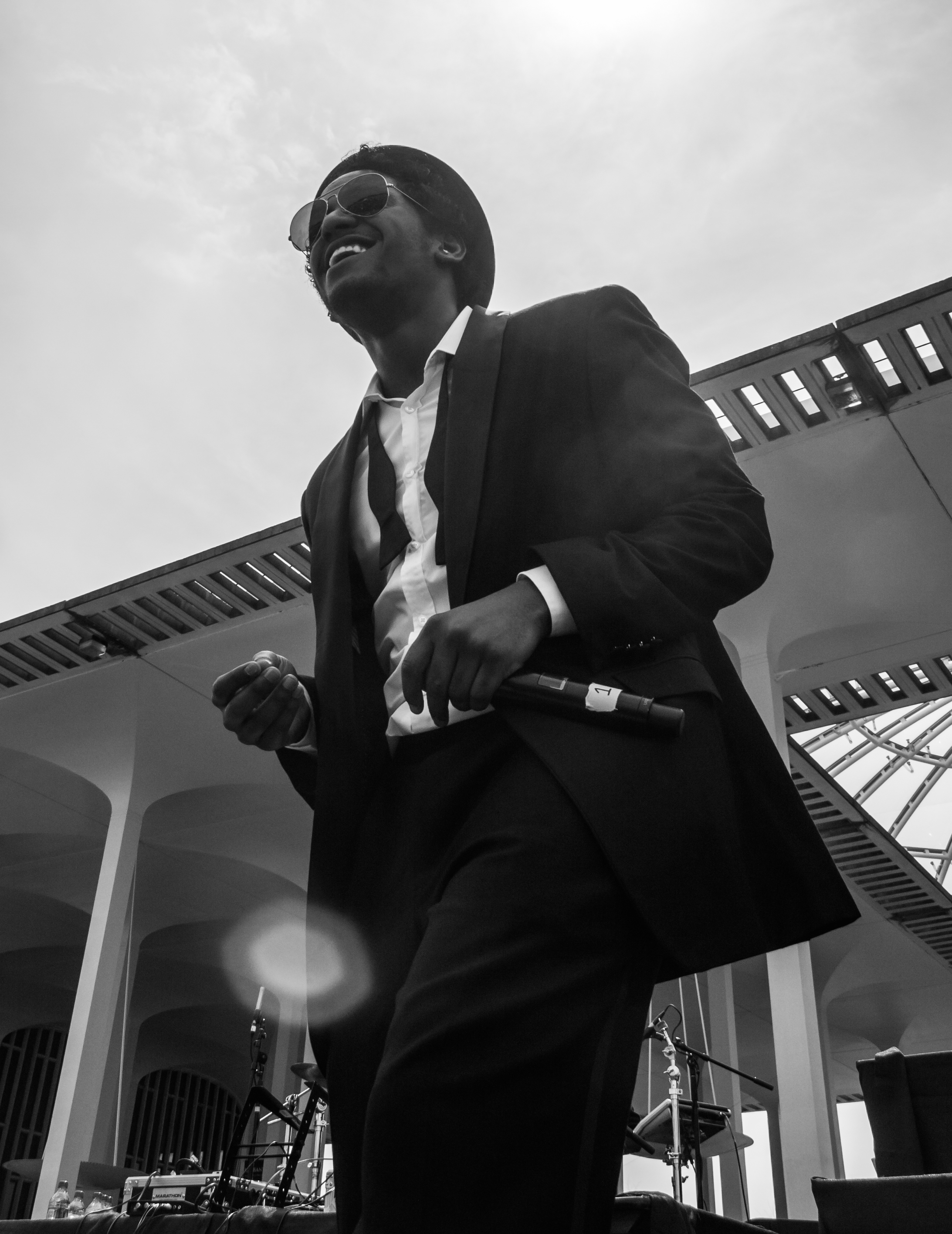 Lloyd at UAlbany Parkfest 2012.